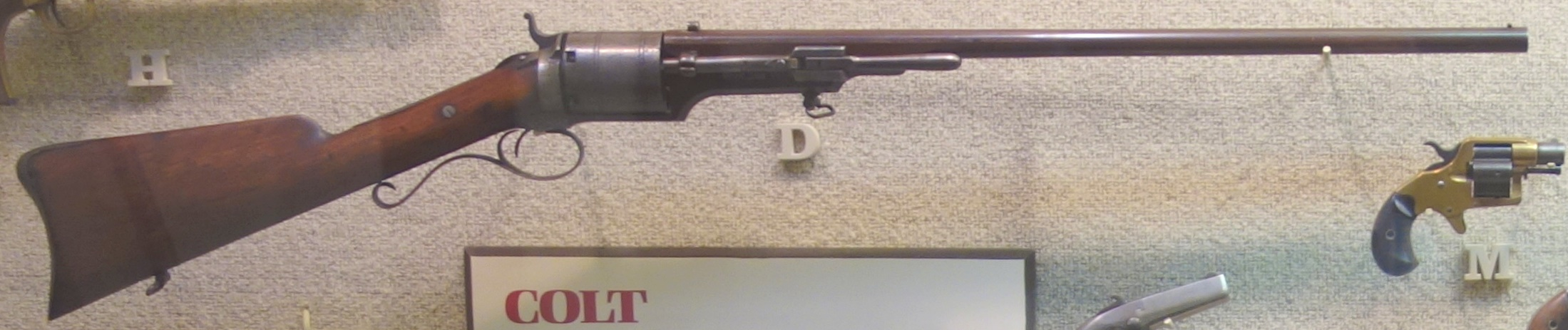 Colt Paterson Carbine, United States, 1836. Compared to Colt Cloverleaf, 1871, on the left.